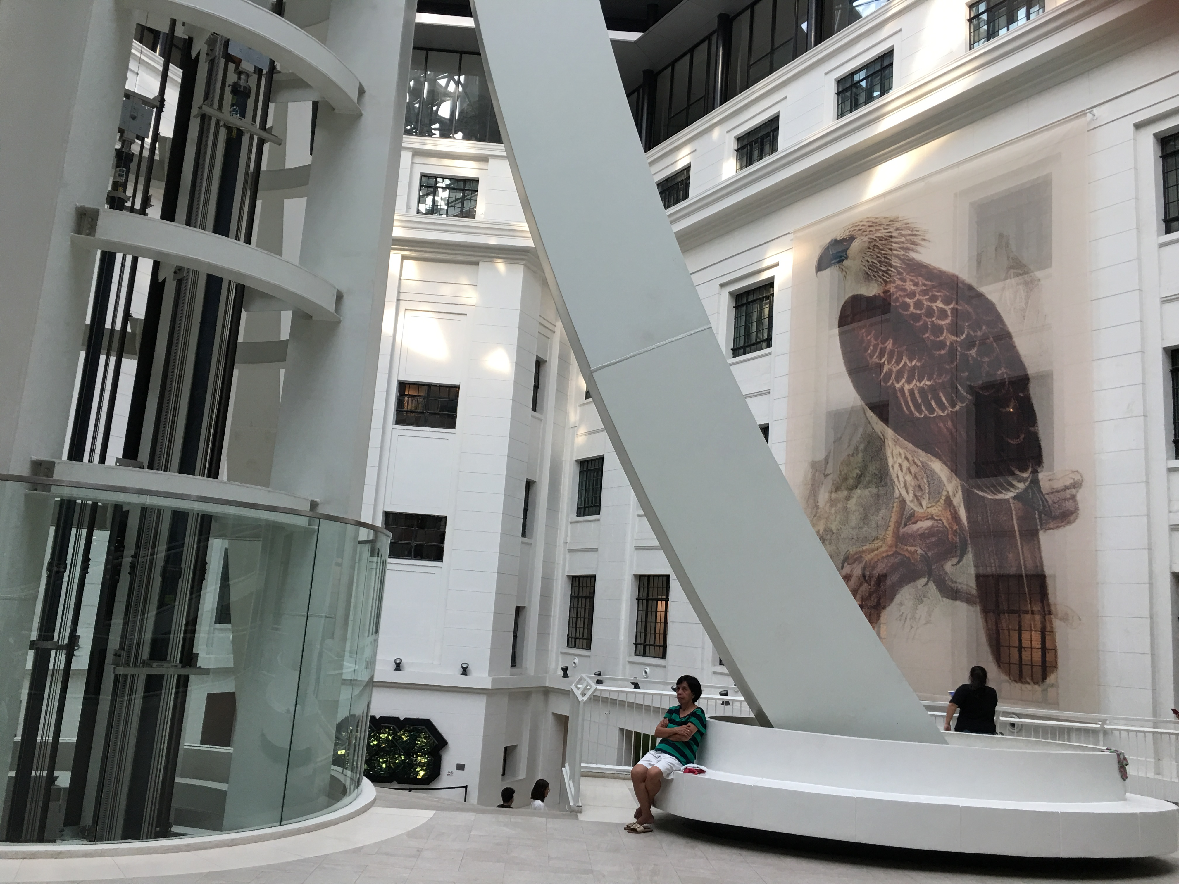 Philippine Eagle (Inside Philippine National Museum of Natural History)